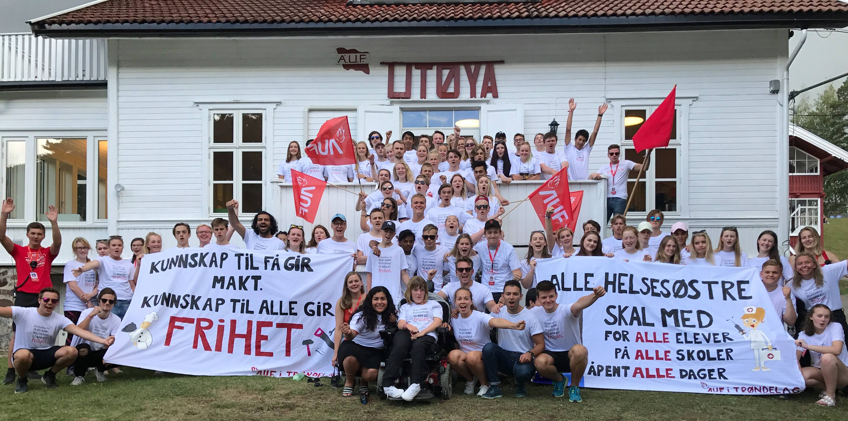 AUF i Trøndelags delegasjon til AUFs sommerleir 2018